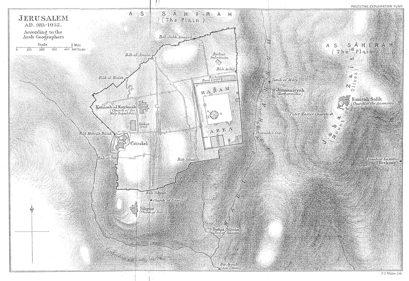 Jerusalem AD 958-1052, according to the Arab geographers; from from Palestine Under the Muslims: A Description of Syria and the Holy Land from AD 650 to 1500, by Guy Le Strange, London 1890 (hence out of copyright)